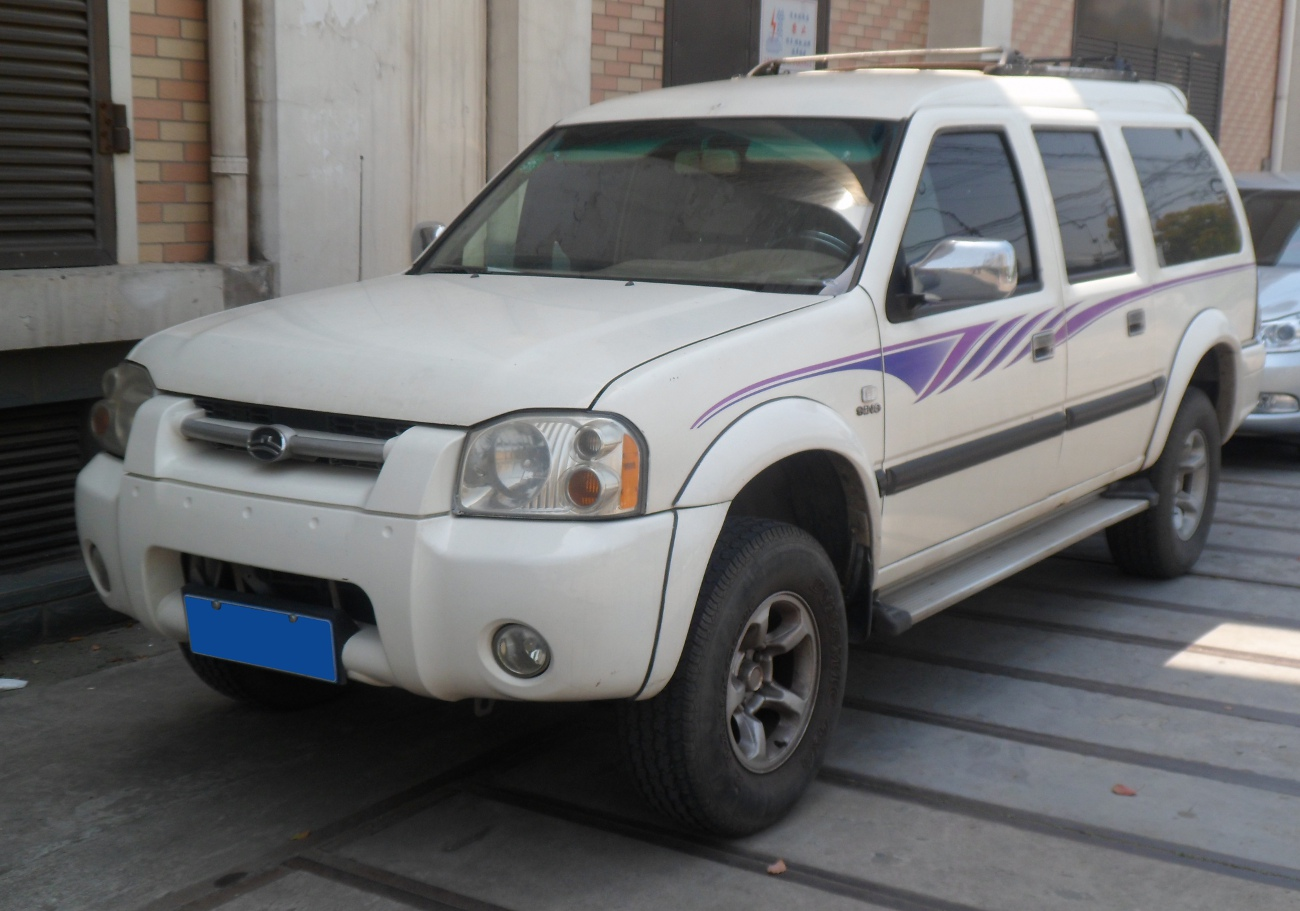 Great Wall Sing photographed in Shanghai, China.